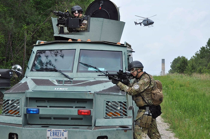 Centerra's special response team and aviation operations department are important elements of the SRS protective force. (original caption) - image date circa 2016